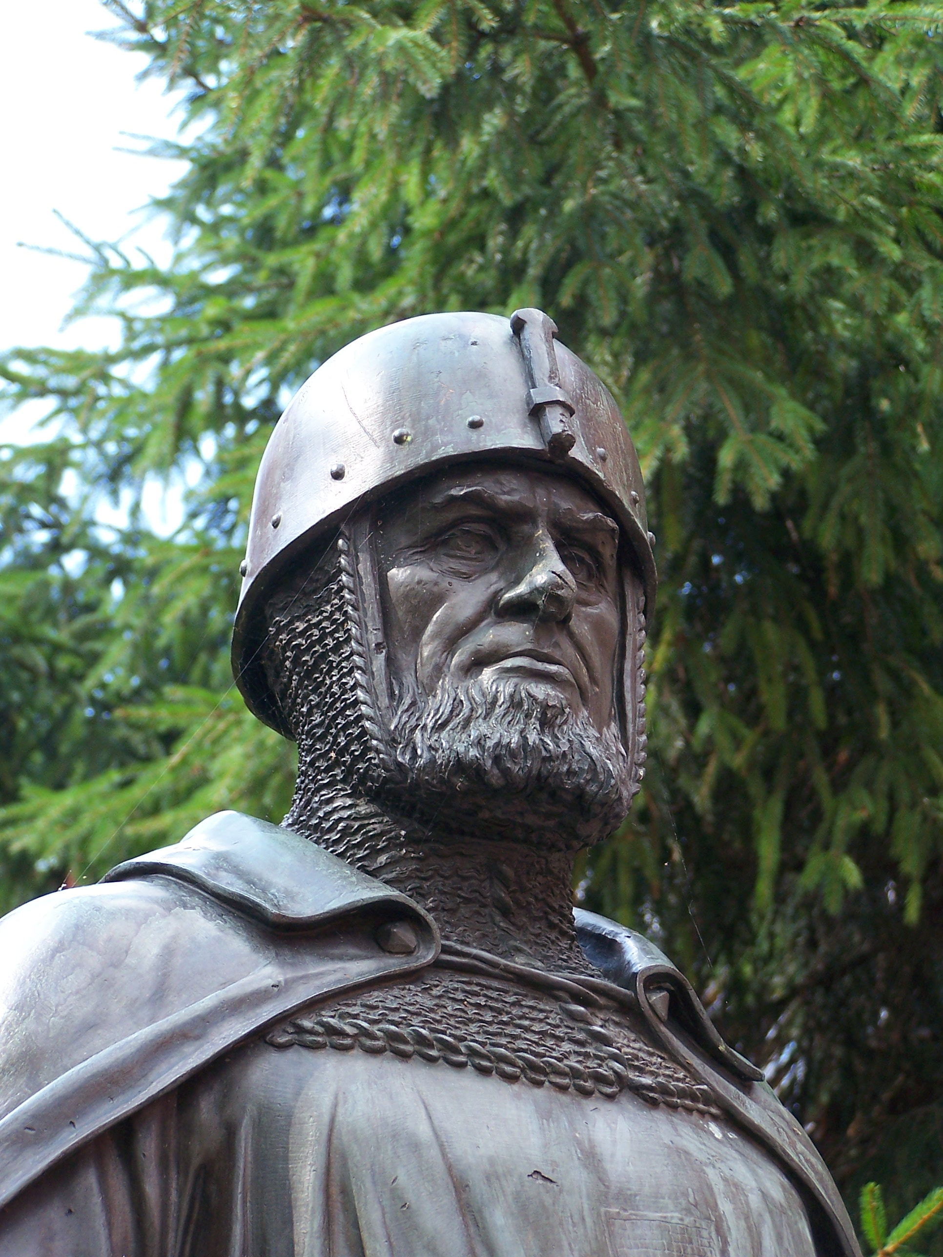 Statue of Siegfried von Feuchtwangen in castle of Malbork.